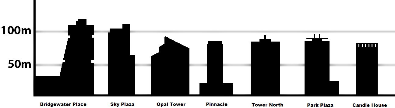 Tallest buildings in Leeds, United Kingdom